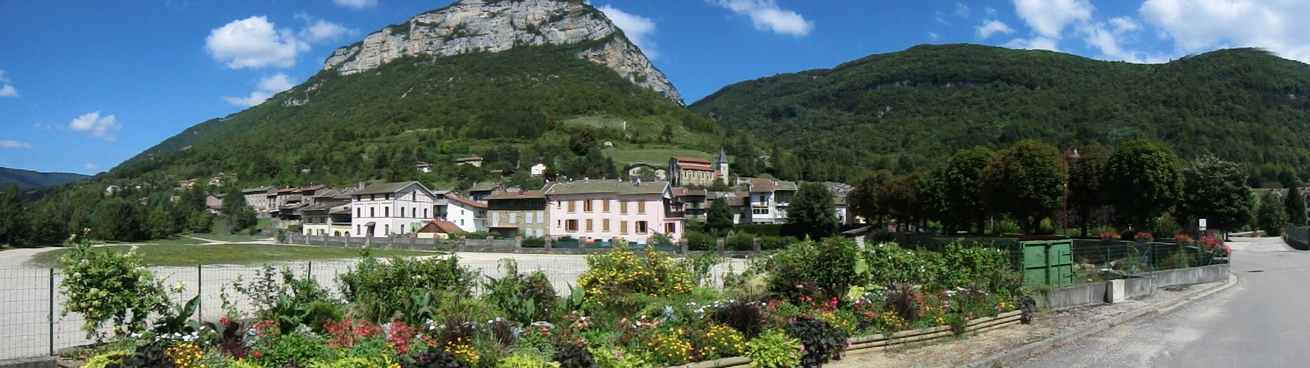 Panoramic of Argis.